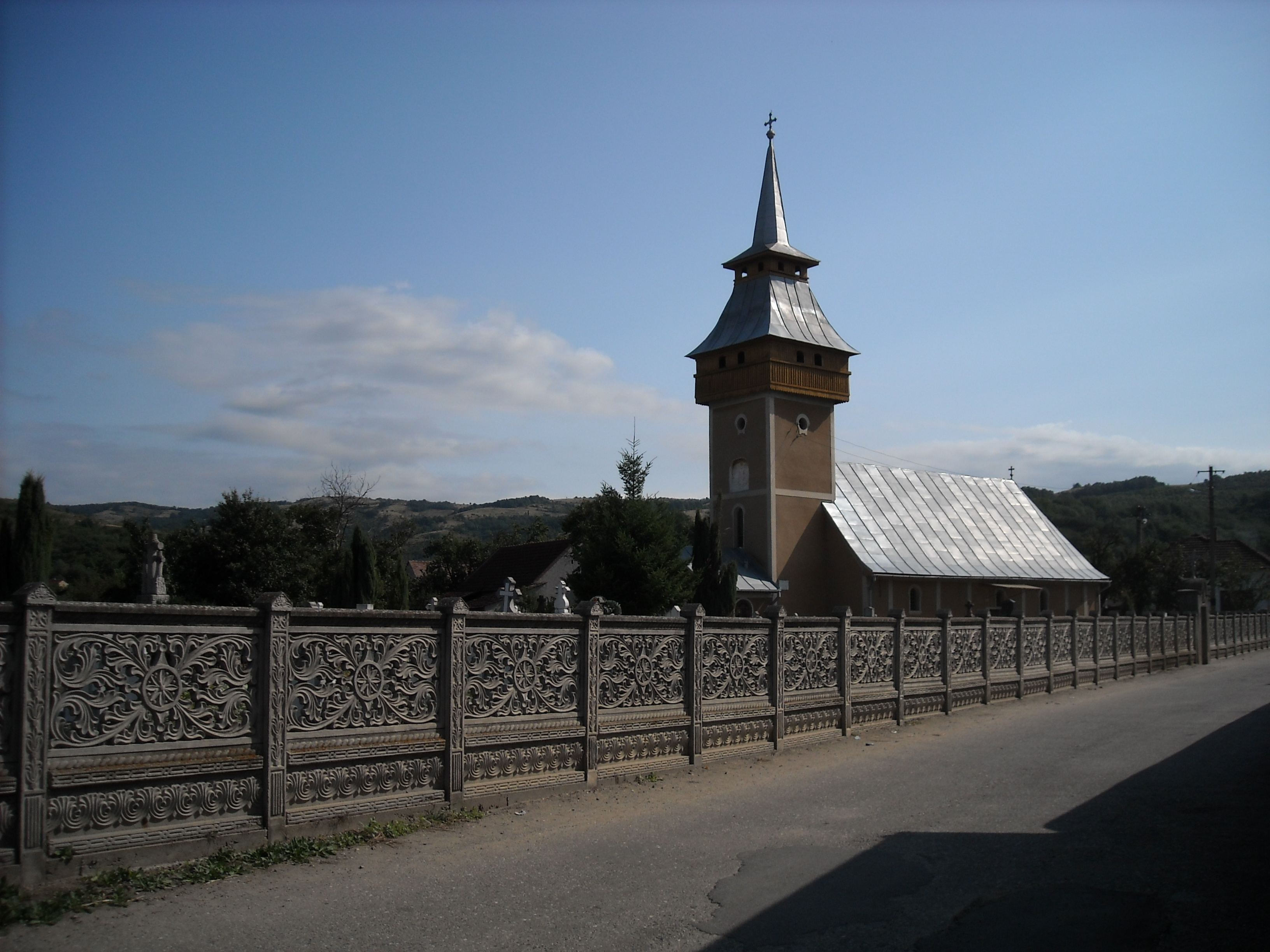 orthodox church in Geoagiu-Suseni